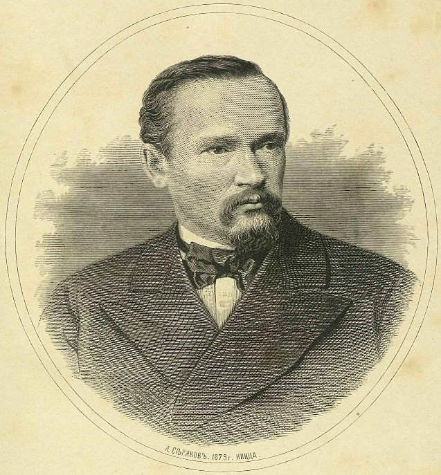 Semevskiy Mikhail Ivanovich